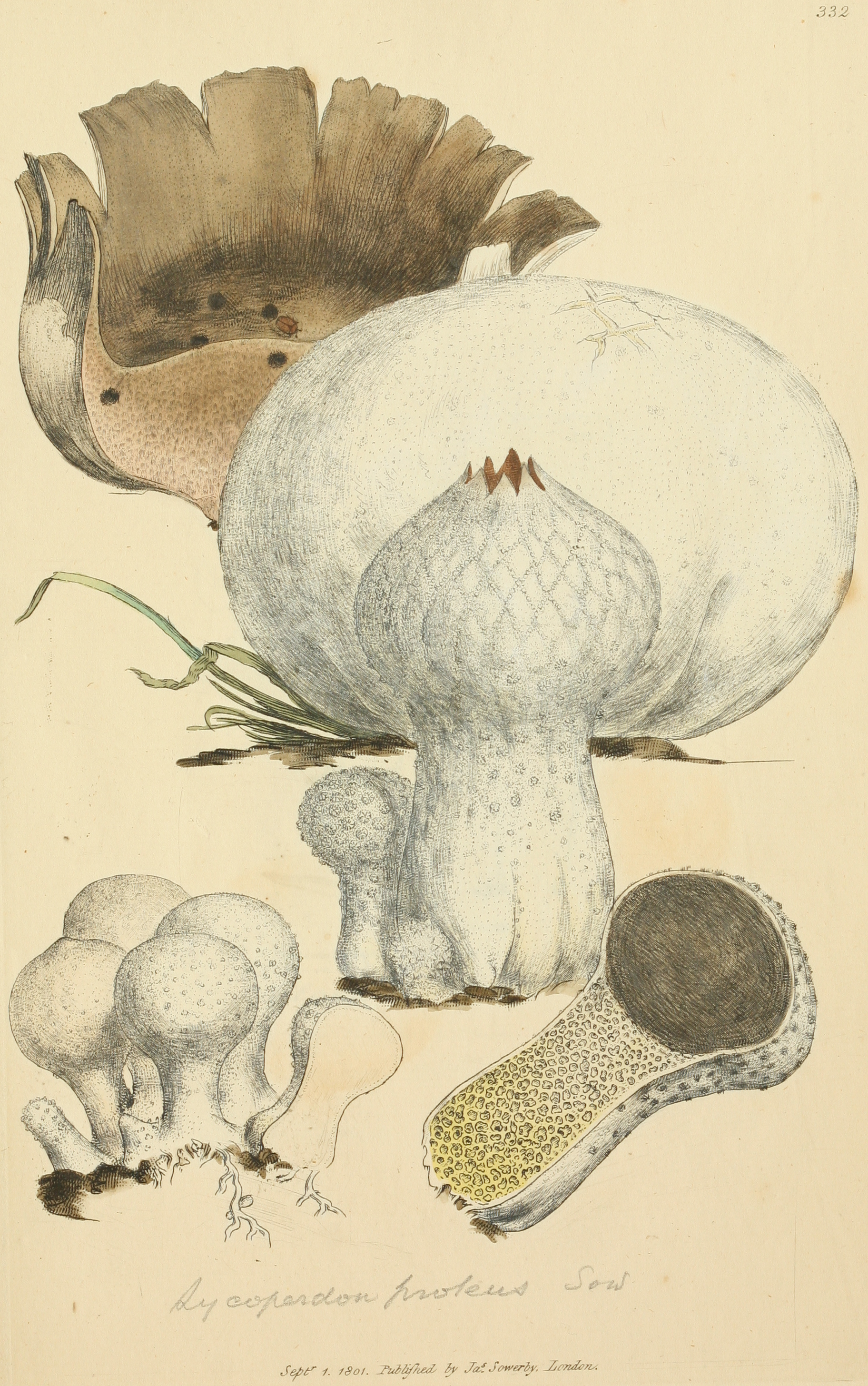 This is a plate from James Sowerby's Coloured Figures of English Fungi or Mushrooms.